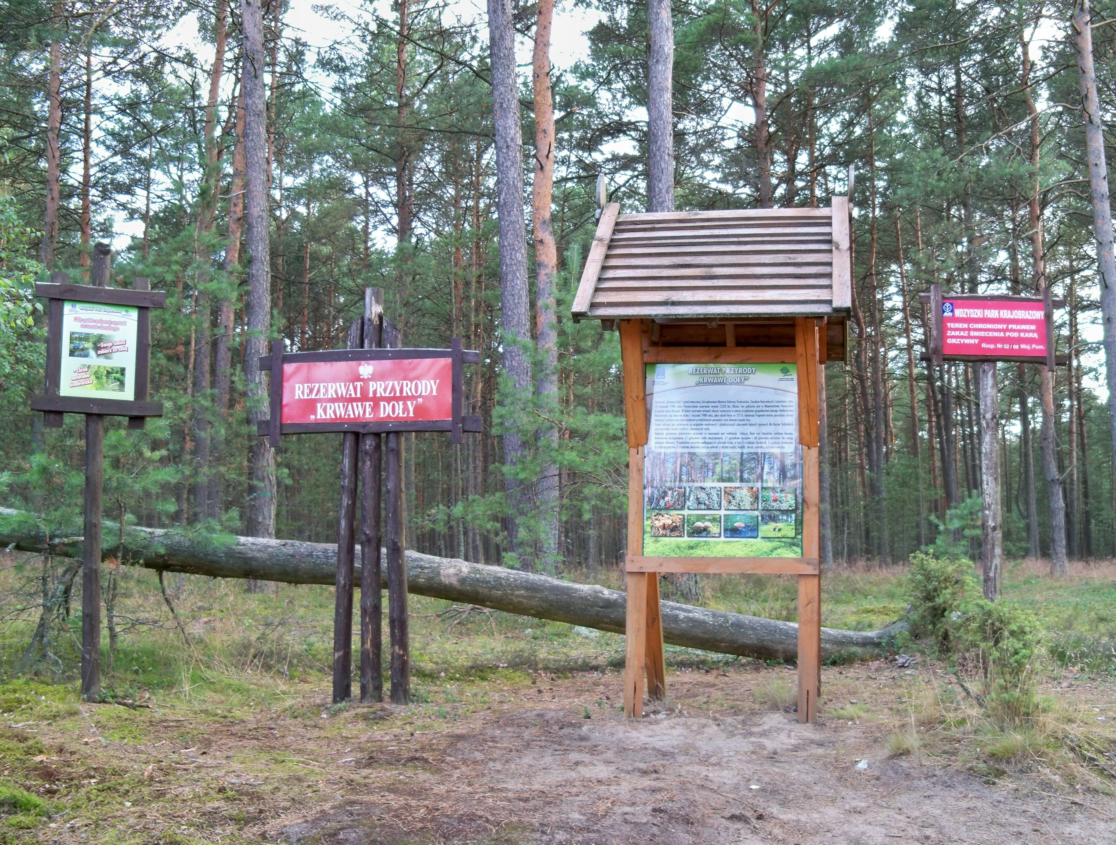 "Krwawe Doły" reserve in Poland